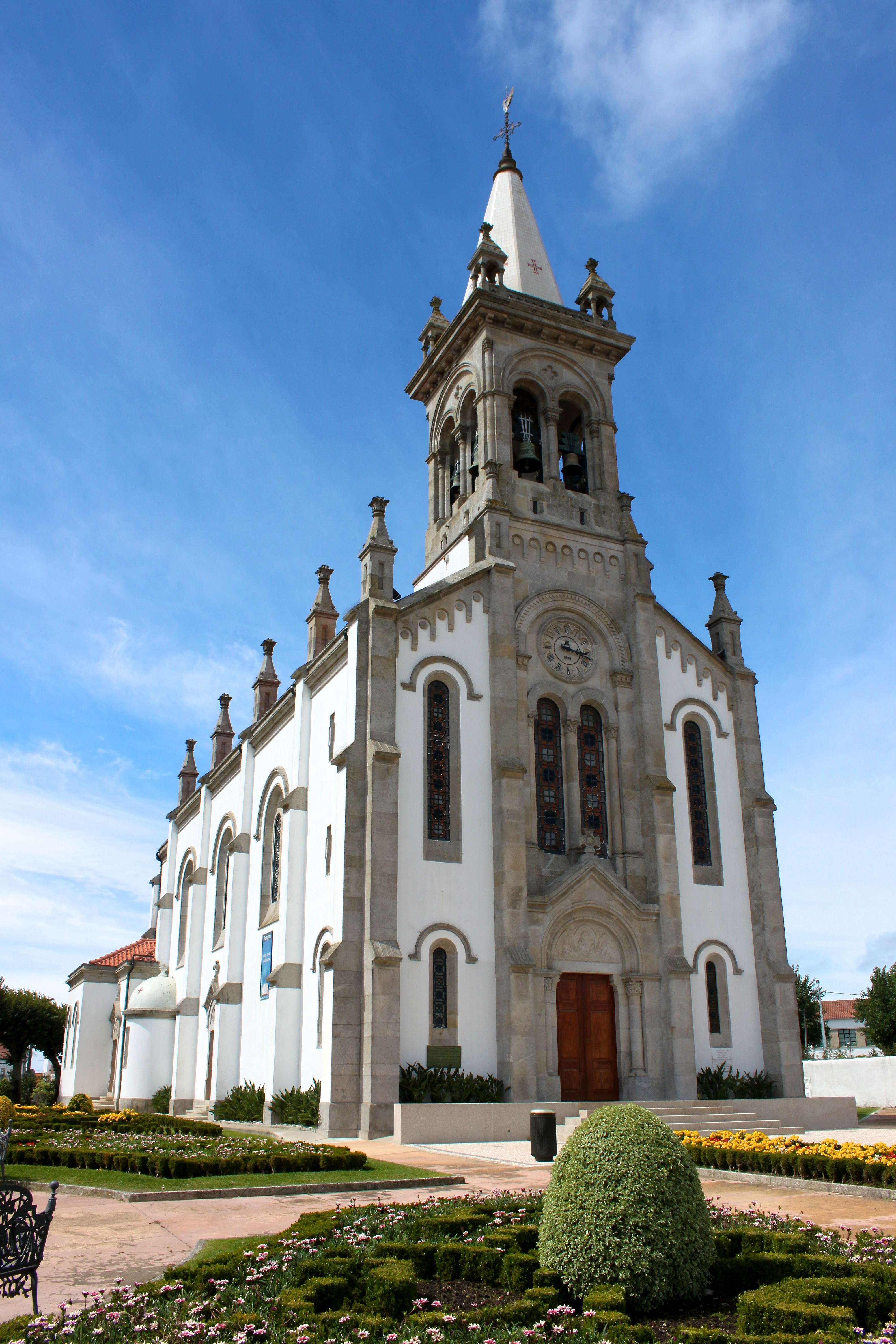 This file was uploaded for Wiki Loves Monuments in Portugal with the unique identifier 97019983.